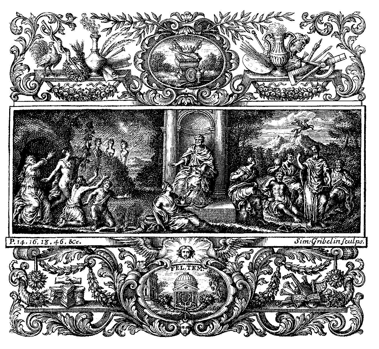 The emblem engraved for the frontispiece of the first volume of Lord Shaftesbury's Characteristicks of Men, Manners, Opinions, Times according to the author's instructions.